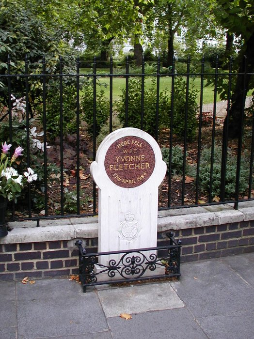 Memorial to PC Yvonne Fletcher, July 2004.